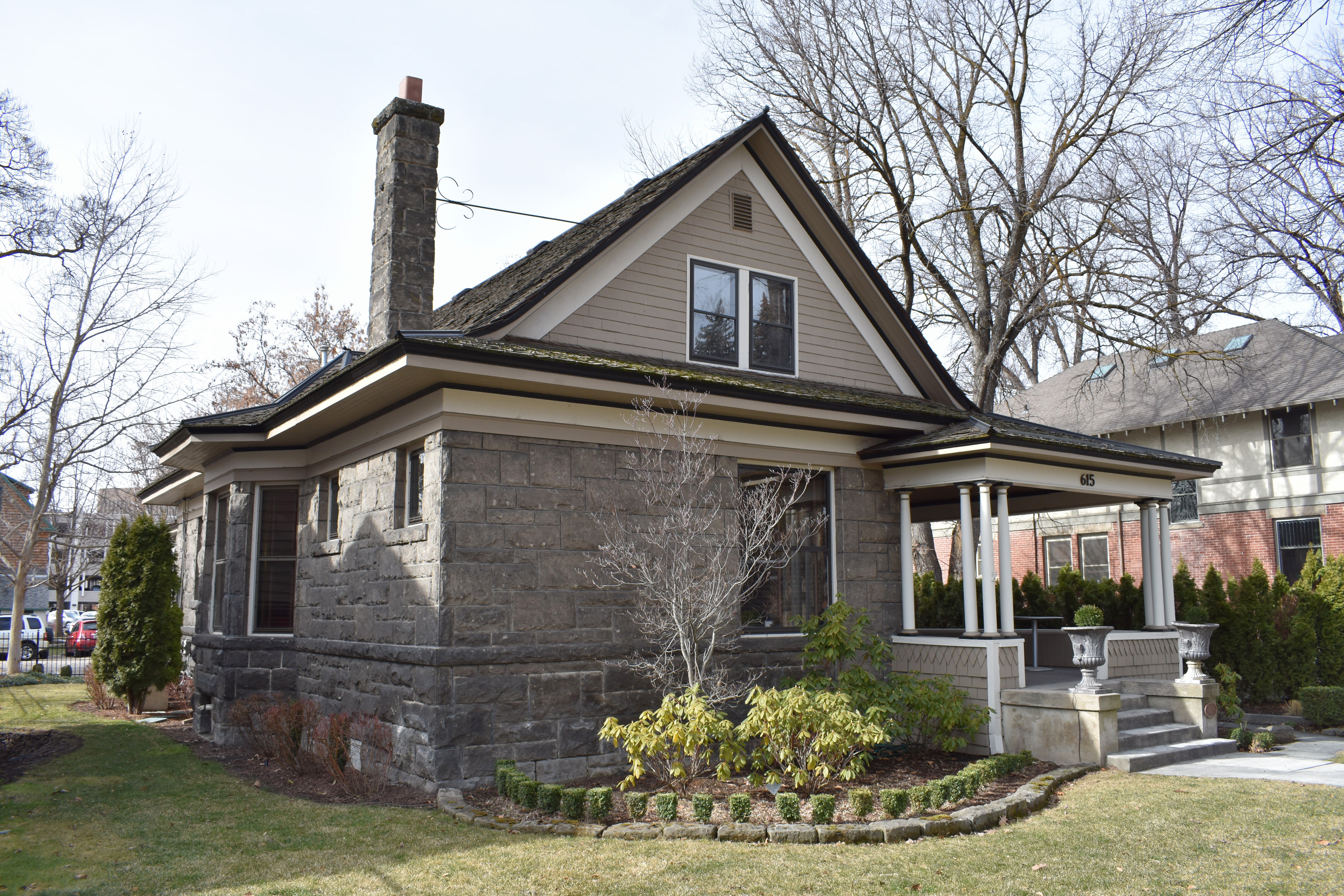 The H.A. Schmelzel House in Boise, Idaho, was designed by Tourtellotte & Co. and is listed on the National Register of Historic Places. The house also is part of the Fort Street Historic District.